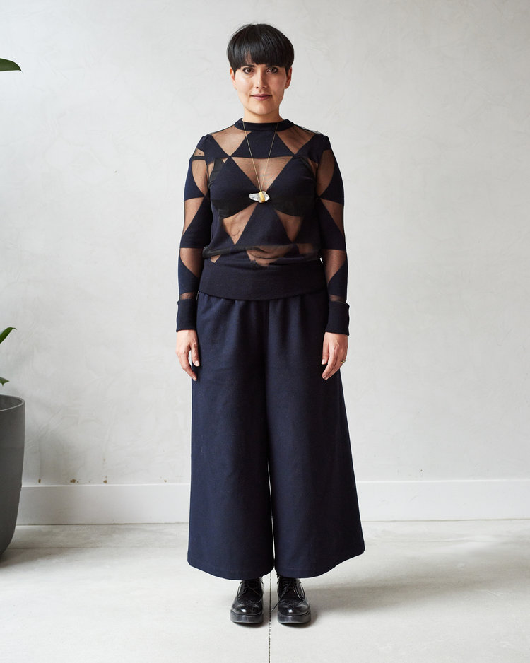 This is a photo of Paola Hernandez at her NYFW show Constellation of Time.